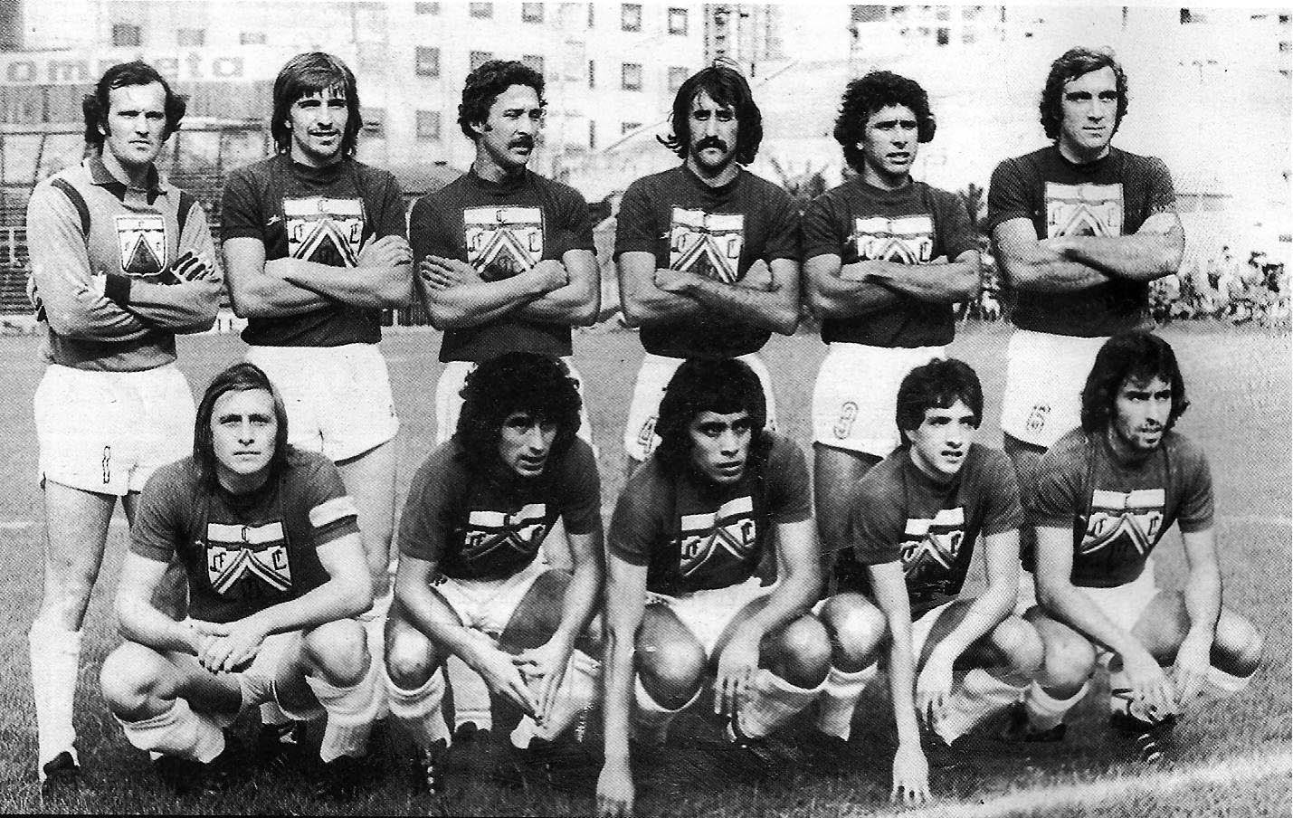 Team of Ferro C. Oeste, Primera B champions.